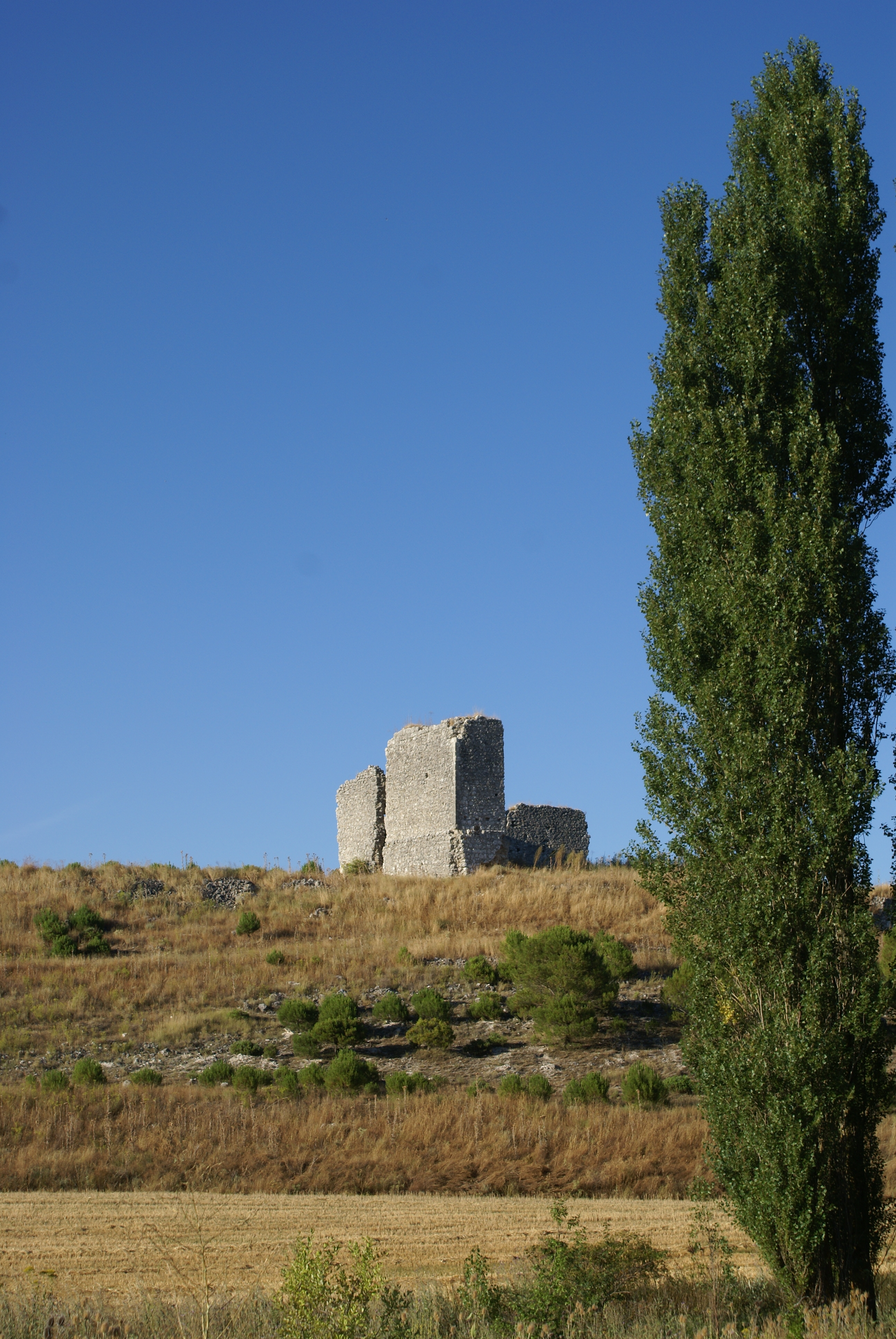 Ruins of the church of Minguela, an uninhabited XVII century village near Bahabón, Valladolid, Spain.